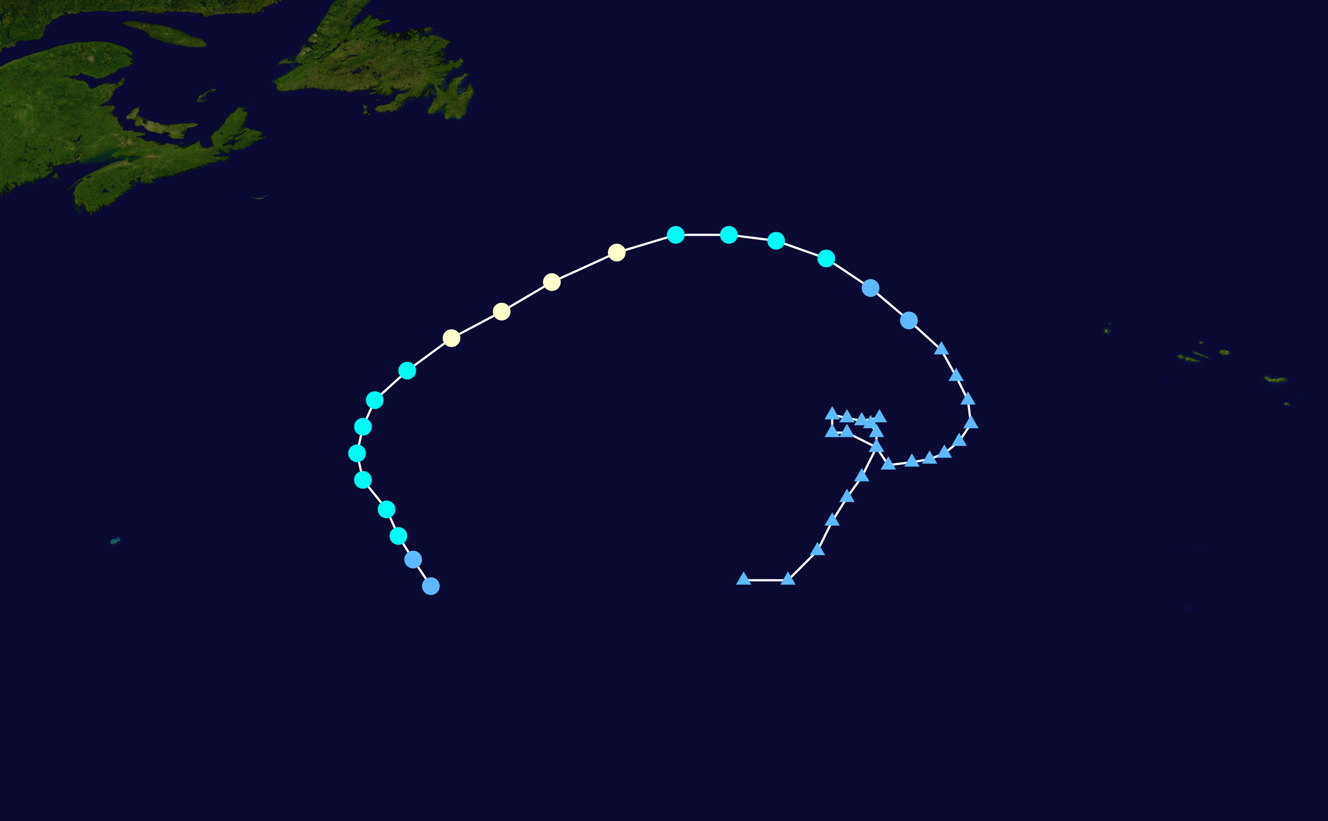 Track map of Hurricane Danny of the 2003 Atlantic hurricane season. The points show the location of the storm at 6-hour intervals. The colour represents the storm's maximum sustained wind speeds as classified in the Saffir–Simpson scale (see below), and the shape of the data points represent the nature of the storm, according to the legend below. Saffir–Simpson scale Tropical depression≤38 mph≤62 km/h Category 3111–129 mph178–208 km/h Tropical storm39–73 mph63–118 km/h Category 4130–156 mph209–251 km/h Category 174–95 mph119–153 km/h Category 5≥157 mph≥252 km/h Category 296–110 mph154–177 km/h Unknown Storm type Tropical cyclone Subtropical cyclone Extratropical cyclone / Remnant low / Tropical disturbance / Monsoon depression